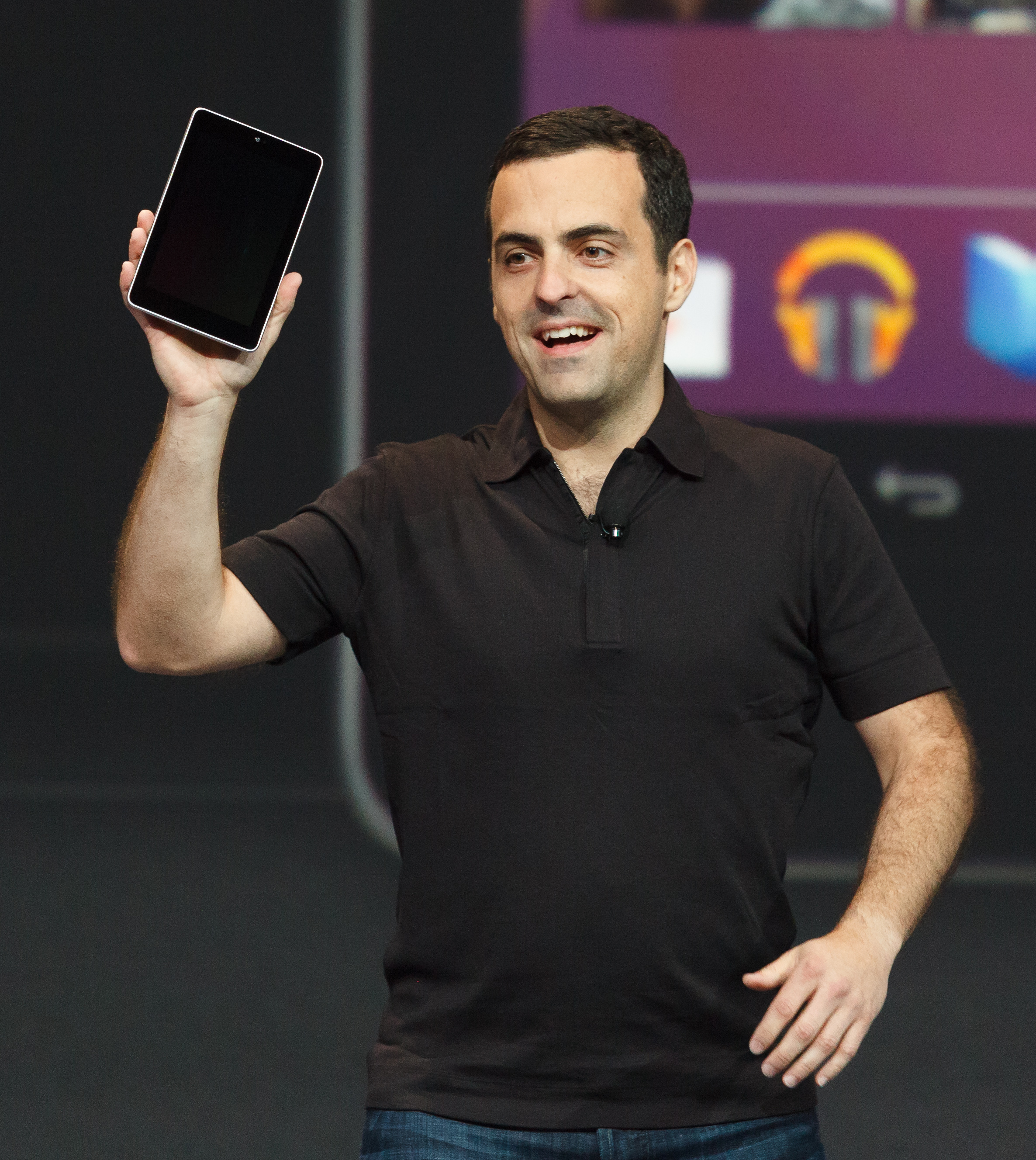 Hugo Barra unveiling the Nexus 7, Google's latest tablet, at the company's annual Google I/O developers' conference in San Fransico. || Photo info: Taken 2012-06-27 with Canon EOS 5D Mark II, EF70-200mm f/4L IS USM, ¹⁄₁₆₀ sec at f/4.0, focal length 200 mm, ISO 2500. Copyright 2012.